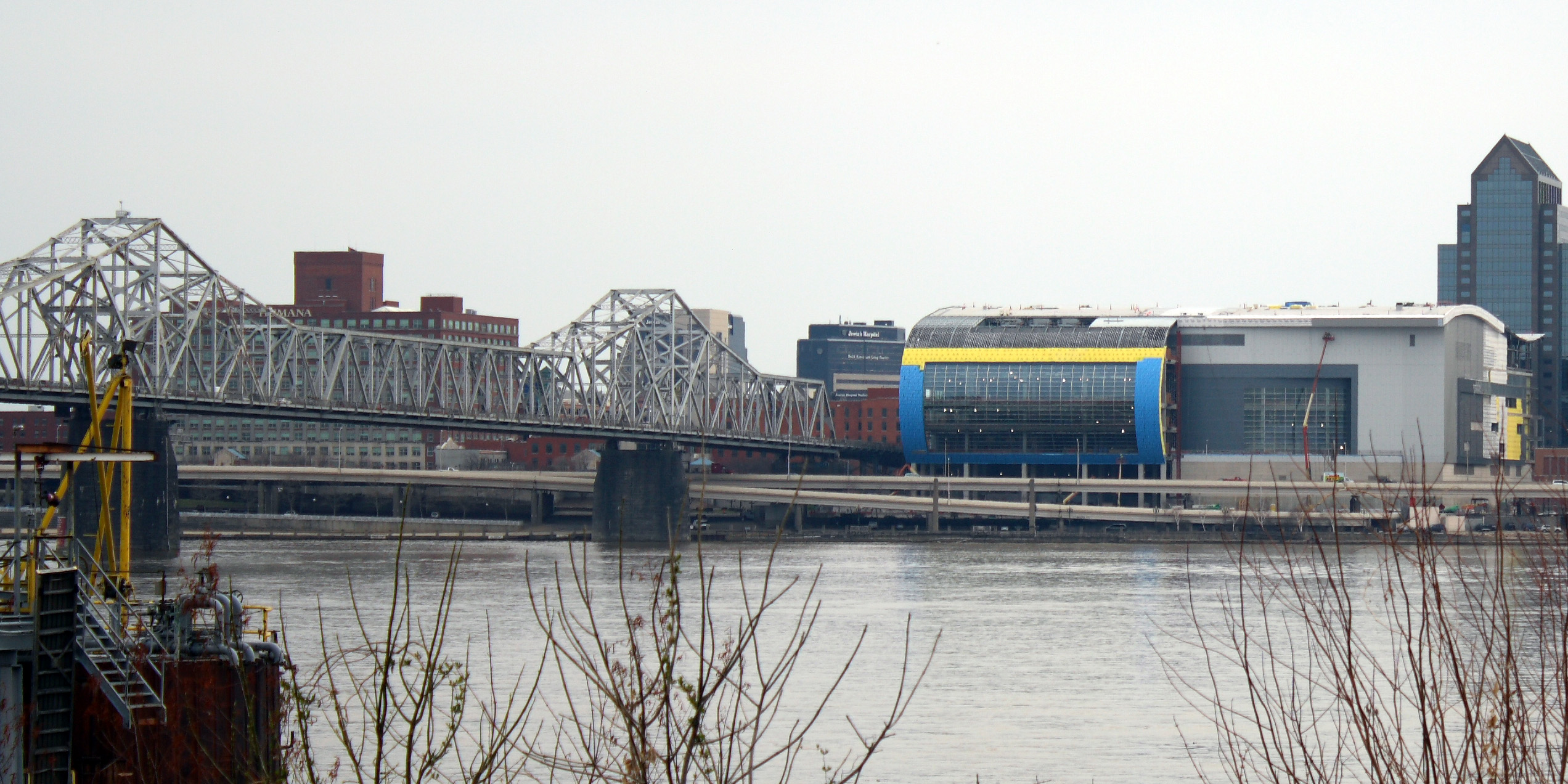 This file has been extracted from another file: Louisville waterfront arena.jpg